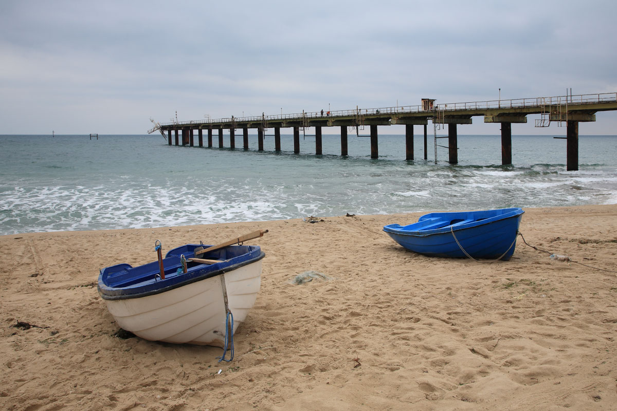 Shkorpilovtsi fore, Bulgaria